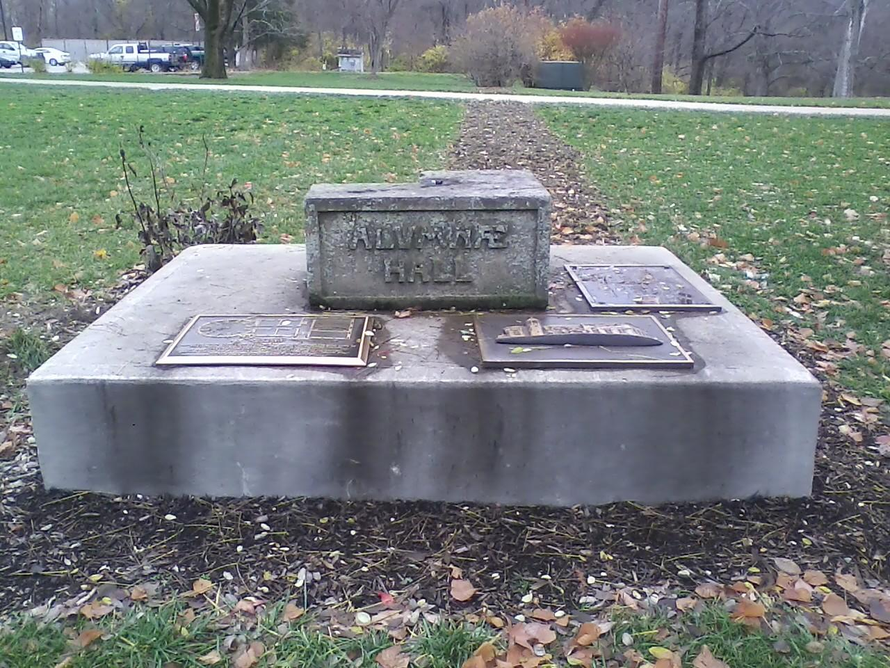 Alumnae Hall Memorial